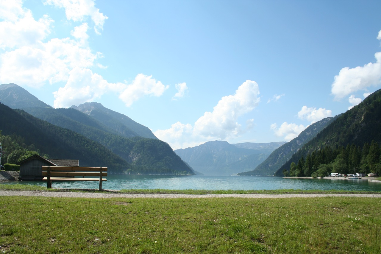 Achensee from Achenkirch to south. mountains left to right: Kotalmjoch (2122m), Klobenjoch (2041m), Bärenkopf (1991m), right the east slopes of Seebergspitze and Seekarspitze